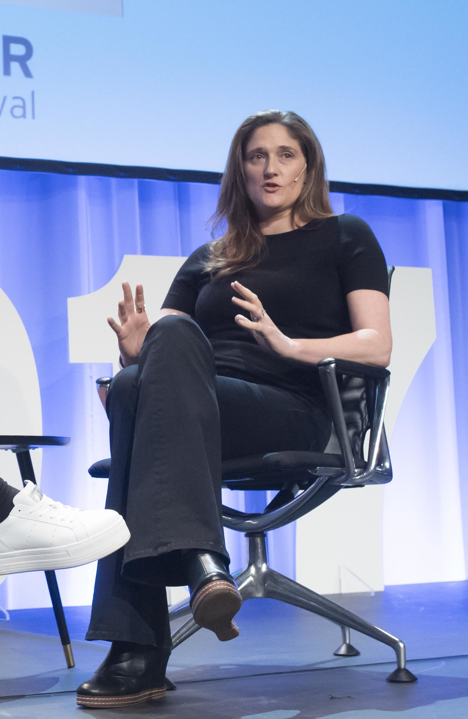 OJ Made in America Caroline Waterlow moderator Mona B Riise